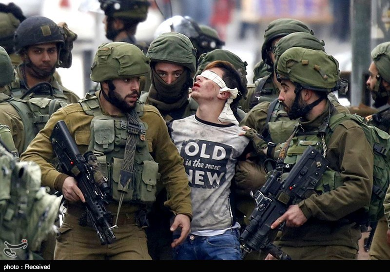 Capture of a Palestinian civilian by Israeli soldiers